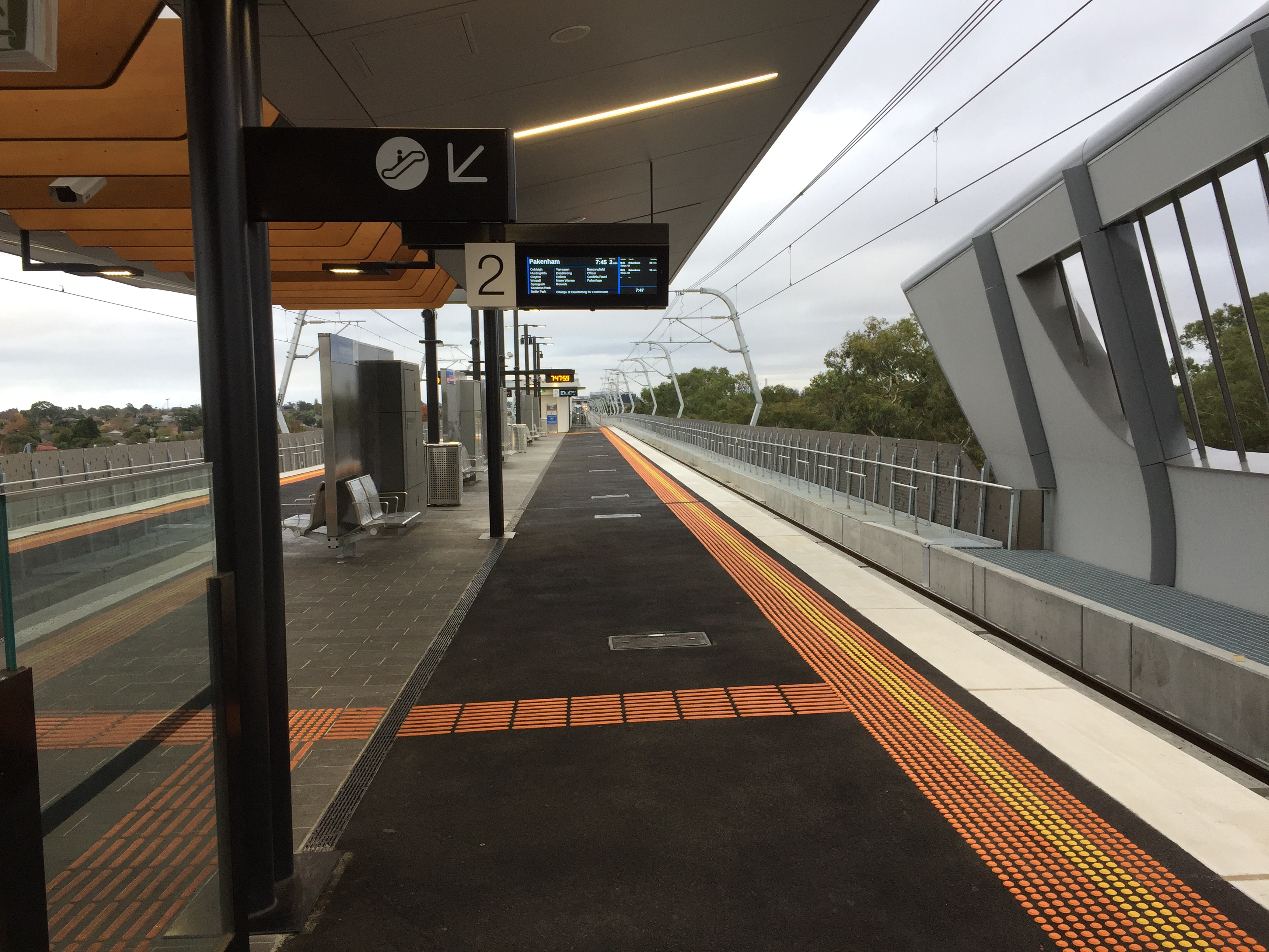 Hughesdale Railway Station Platform 2 - a - April 2019